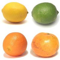 lemon, lime, orange, mandarin.